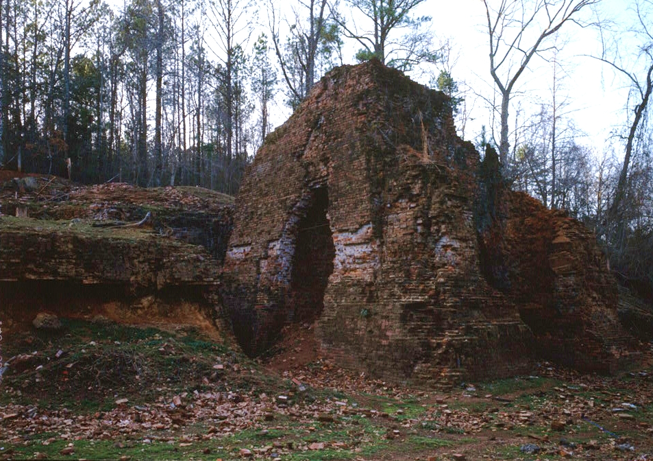 Front and western side of the Brierfield Furnace, located west of Brierfield in Bibb County, Alabama, United States. Built in 1861, it is the core of a historic district that is listed on the National Register of Historic Places.